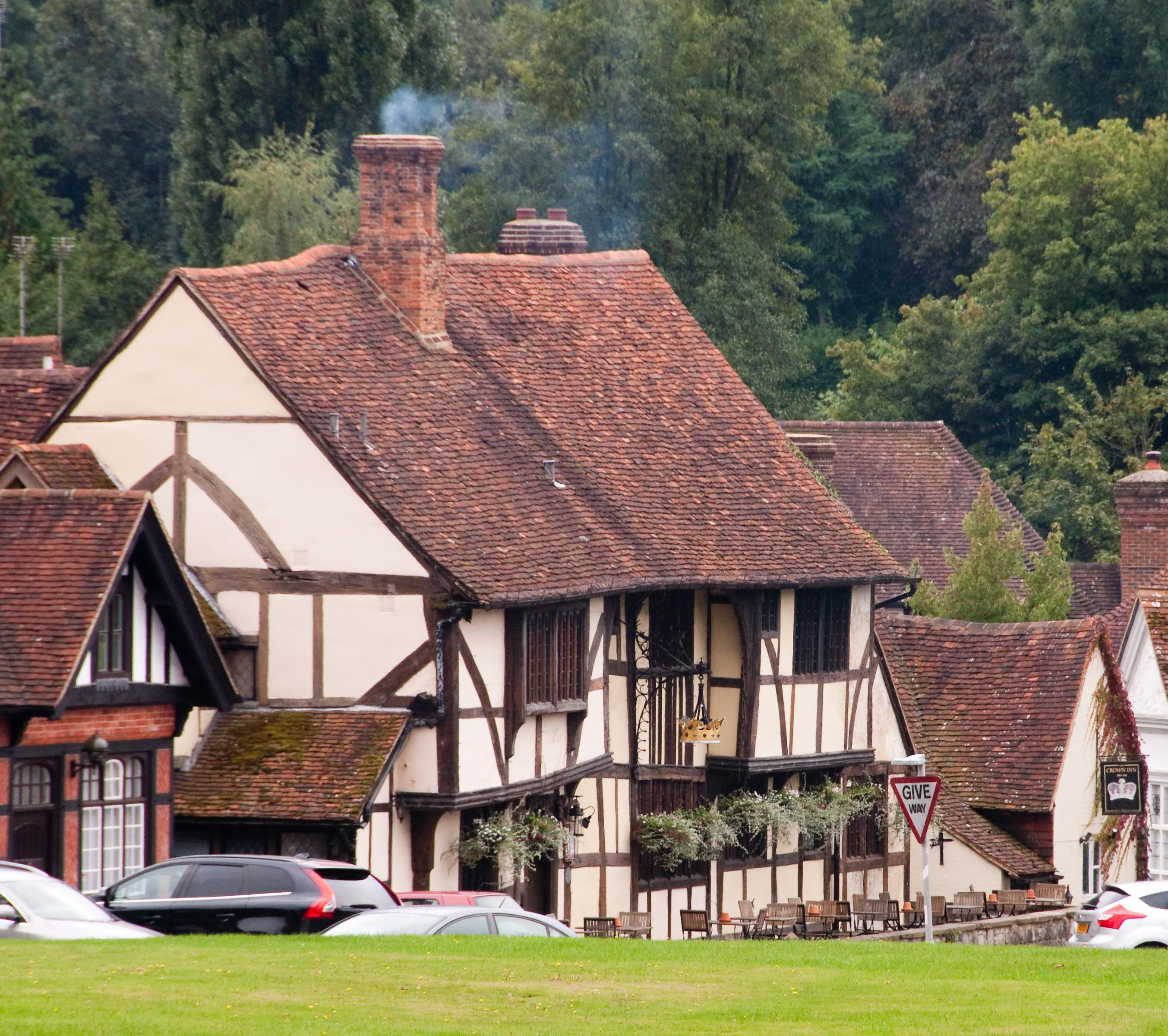 The Crown Inn Chiddingfold seen looking South.